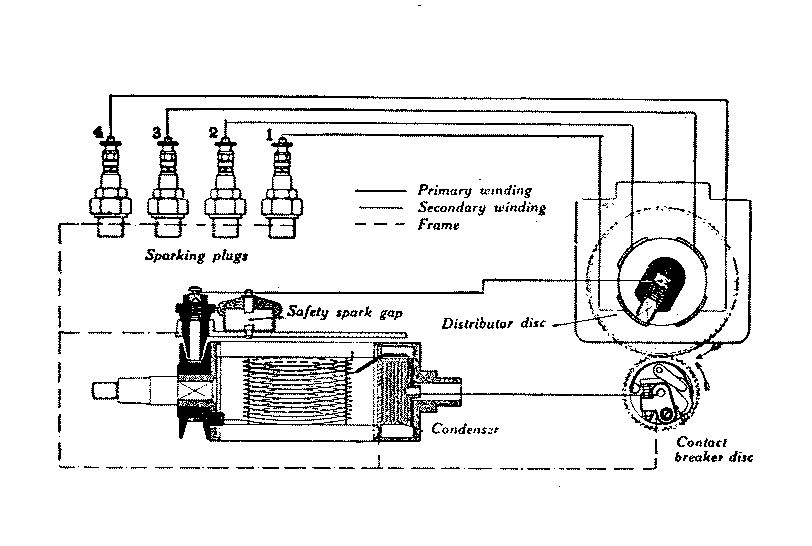 Bosch magneto circuit (Army Service Corps Training, Mechanical Transport, 1911).jpg